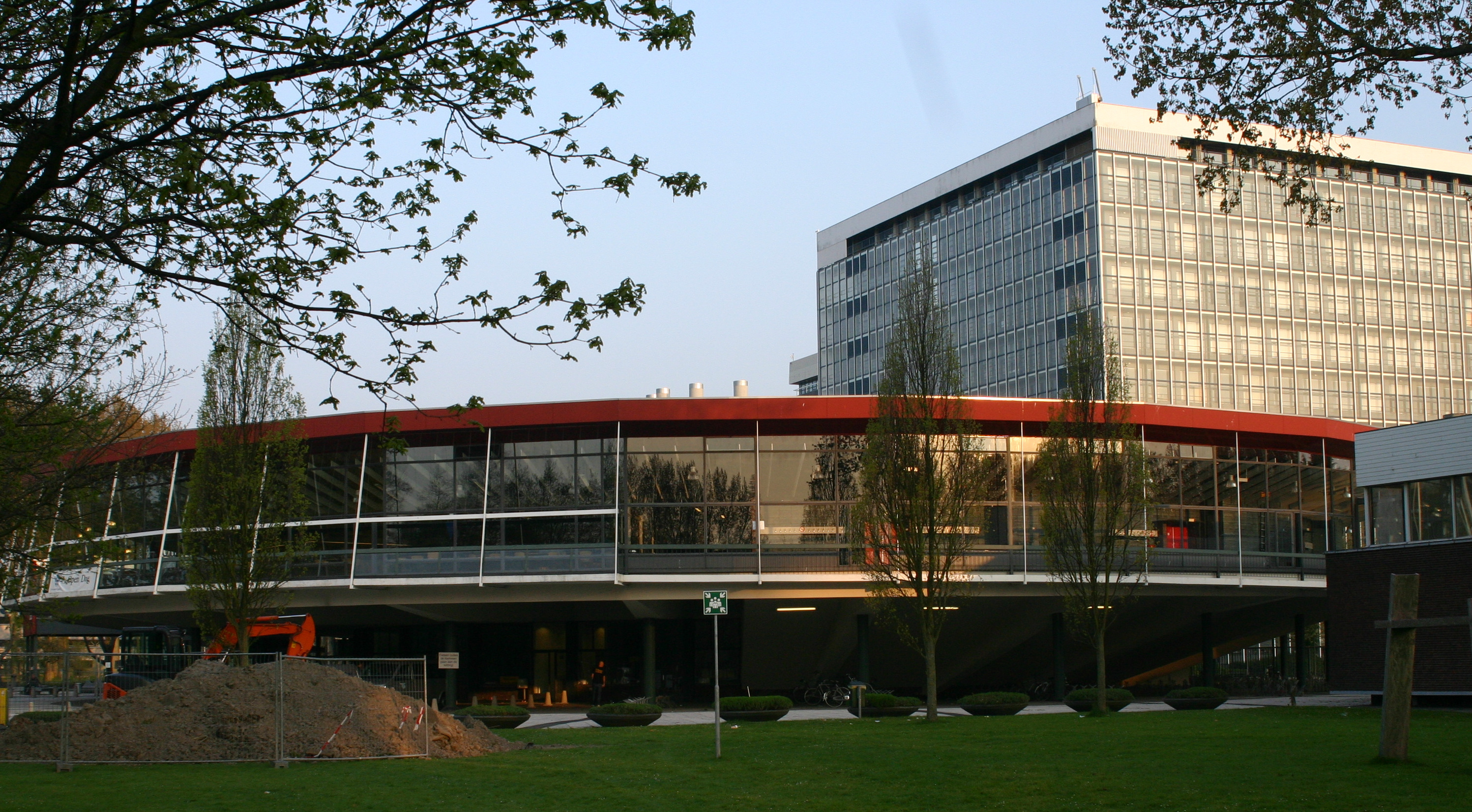 The Gorlaeus building (1971) housing a part of the mathematics and natural Sciences faculty of Leiden University. Designed by the architecture firm Drexhage, Sterkenburg, Bodon & Venstra (DSBV)